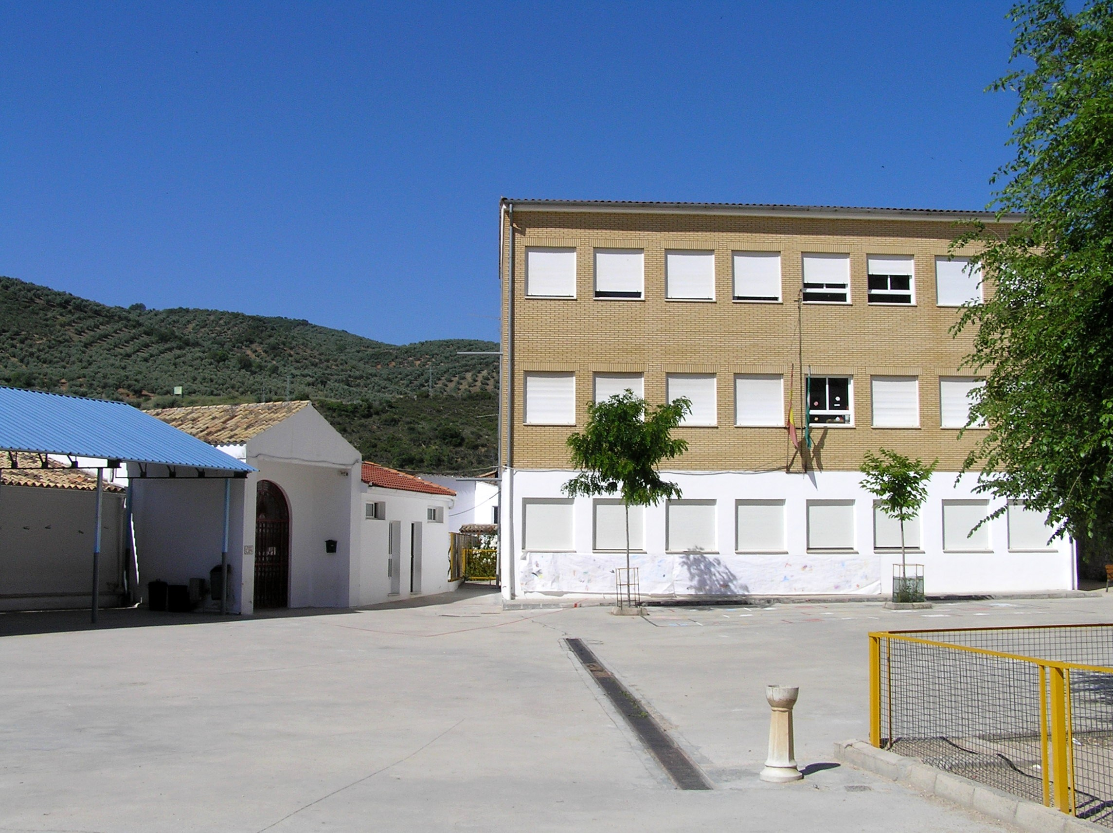 Patio escuela San Fernando